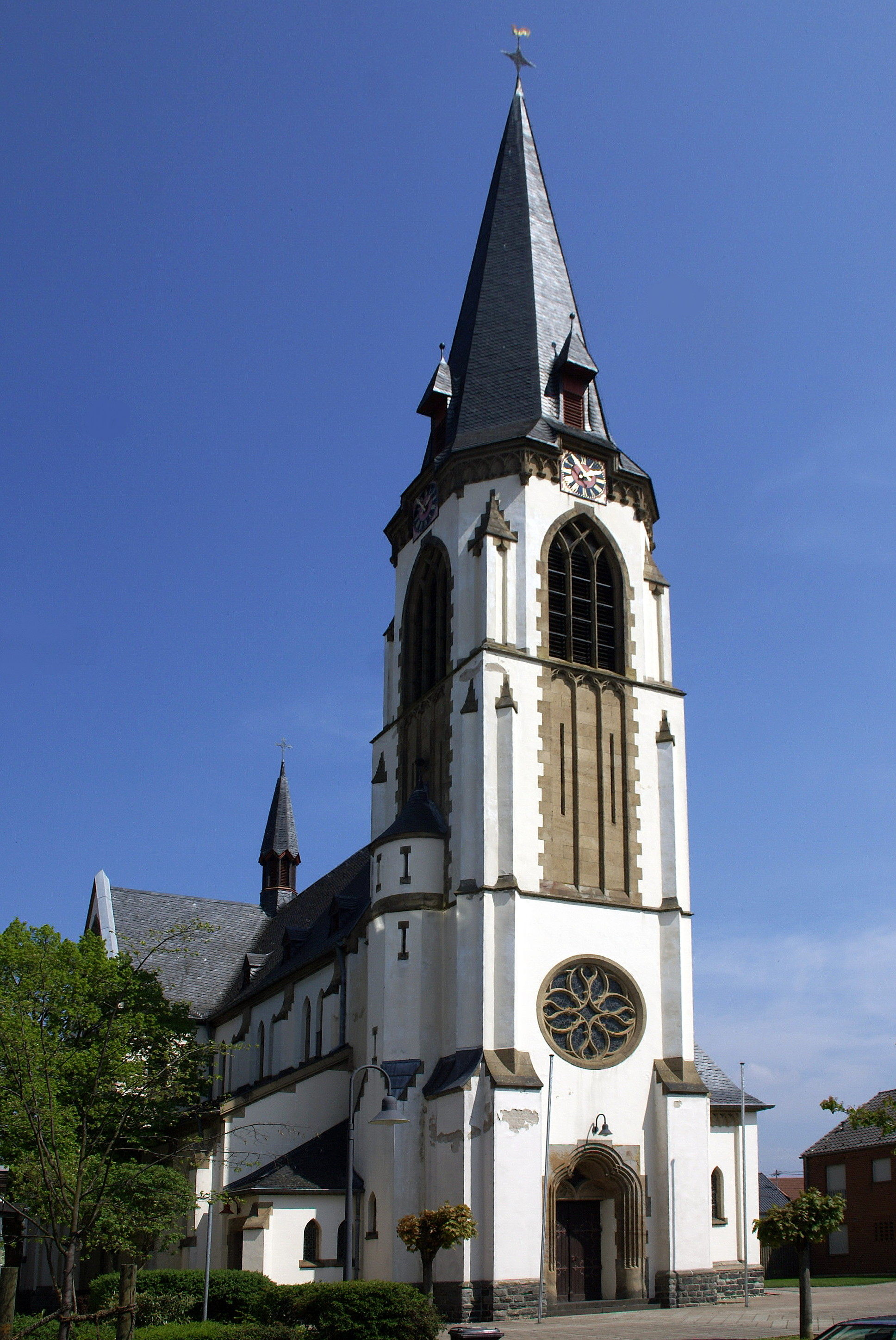 Catholic church St. Martin in Flerzheim